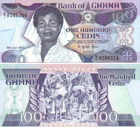 100 New cedis from 1983. The "inflation series"